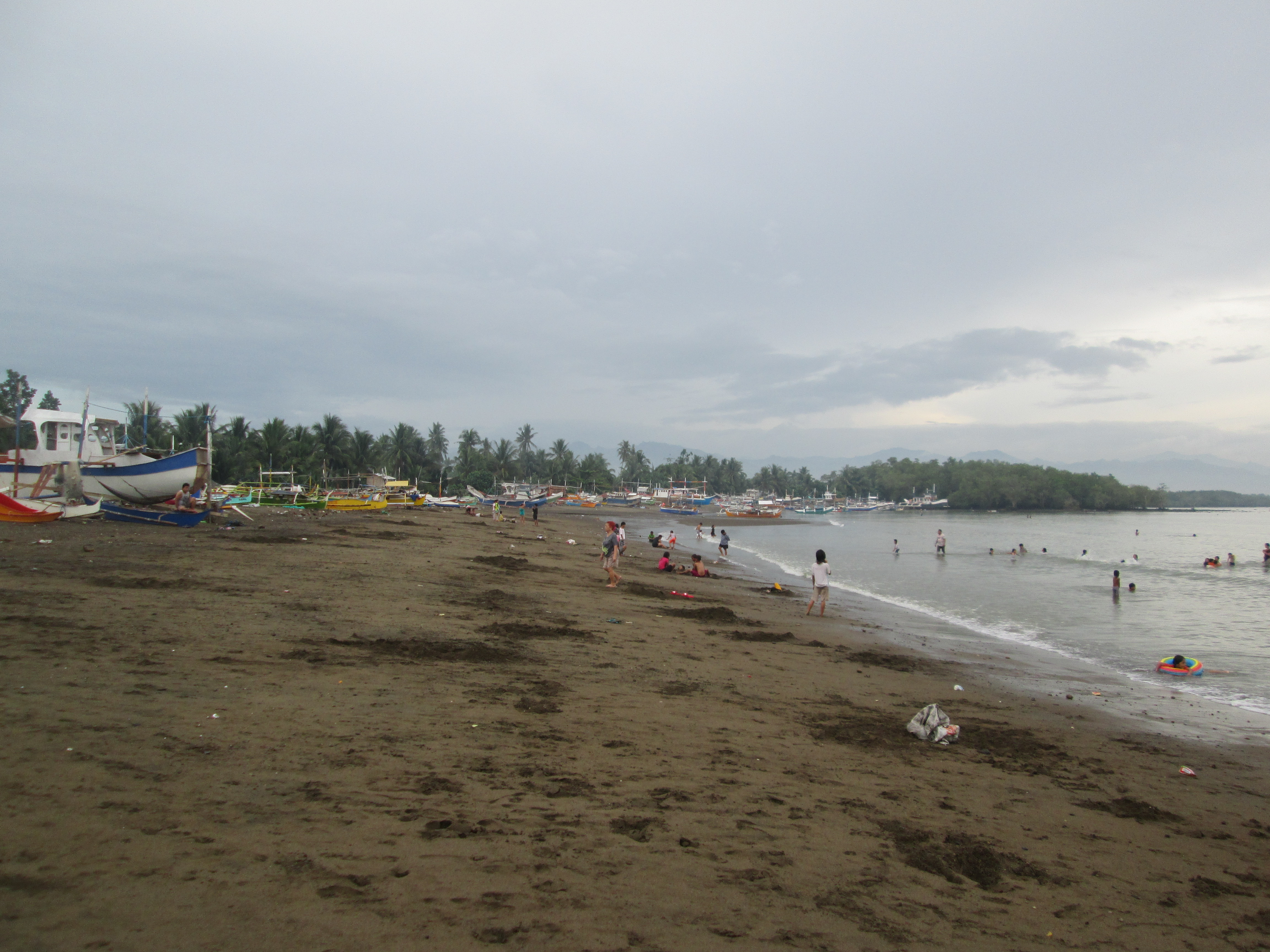 The Ladol Beach at Barangay Ladol served as the main recreational venue in Alabel.